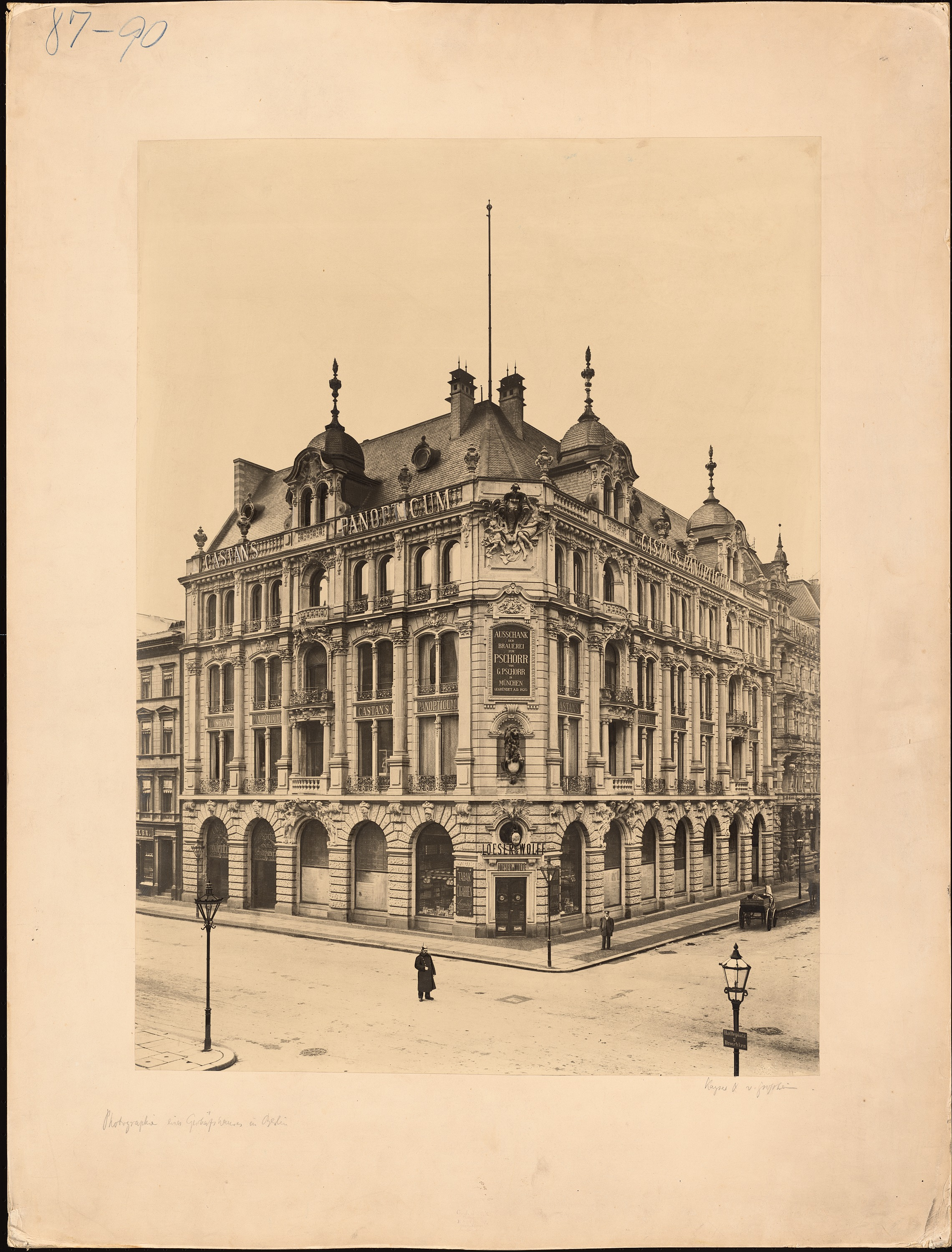 Kayser & von Großheim , Geschäfts- und Wohnhaus, Berlin: Ansicht. Foto auf Papier, 92,1 x 70 cm (inkl. Scanrand). Architekturmuseum der Technischen Universität Berlin Inv. Nr. 8297. Kayser & Großheim Geschäfts- und Wohnhaus, Berlin Inhalt: Ansicht Projektzeit: 1889 Datierung des Blattes / Objekts 1889 Gattung: Foto Material/Technik: Foto auf Papier Maße: 92,1 x 70 cm Ort: Berlin Straße: Friedrichstraße 165, Behrenstraße (historisch: Friedrichstraße, Behrenstraße) Inventarnummer: 8297 URL